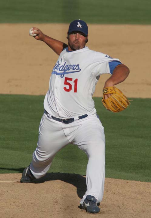 Description Dodgers pitcher Jonathan Broxton pitching during spring training in Arizona, 2008. DateMarch 2008SourceOwn workAuthorCraig Y. Fujii 01:55, 12 May 2008 . . Craigfnp . . 498×720 (69 KB) Dodgers pitcher Jonathan Broxton pitching during spring training in Arizona, 2008.